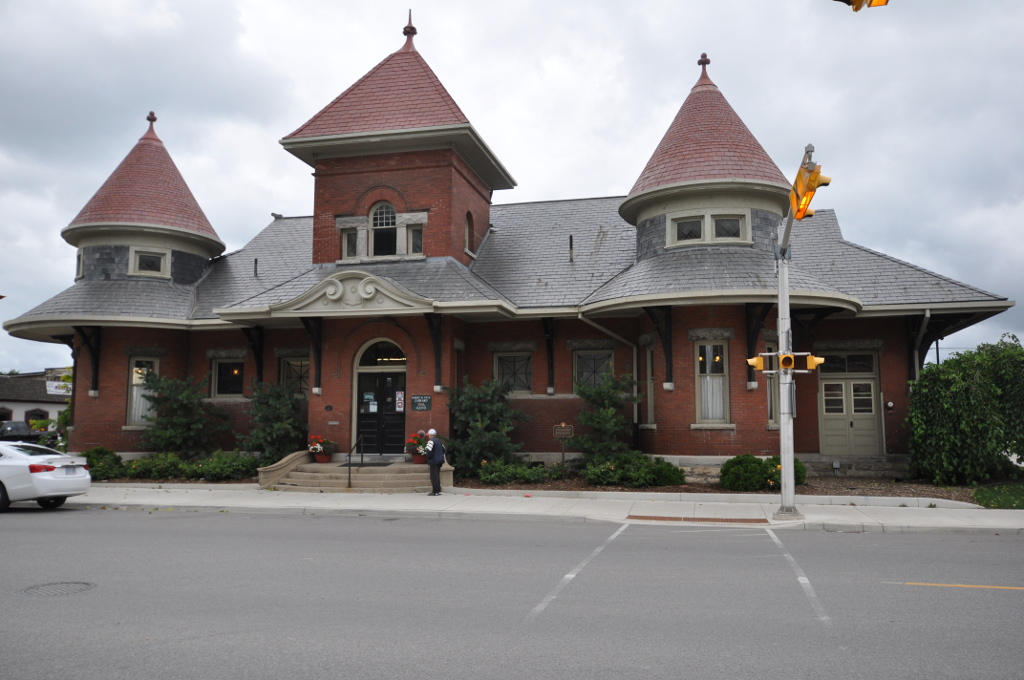 Petrolia Public Library, Petrolia, Ontario. This building was originally a train station.